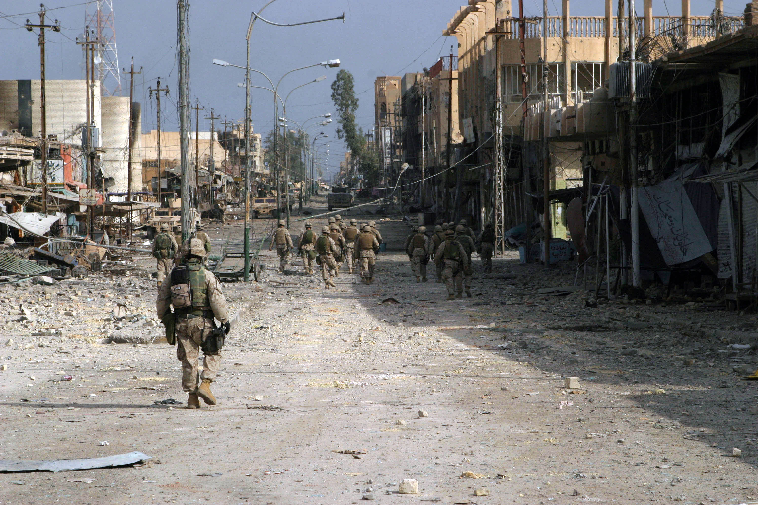 Fallujah, Iraq (Nov. 15, 2004) - Iraqi Special Forces Soldiers assigned to the U.S. Marines of 2nd Squad, 3rd Platoon, L Company, 3rd Battalion, 5th Marine Regiment, 1st Marine Division, patrol south clearing every house on their way through Fallujah, Iraq, during Operation Al Fajr (New Dawn). Operation Al Fajr is an offensive operation to eradicate enemy forces within the city of Fallujah in support of continuing security and stabilization operations in the Al Anbar province of Iraq by units of the 1st Marine Division. U.S. Marine Corps photo by Lance Cpl. James J. Vooris (RELEASED)